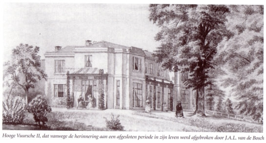 Hooge Vuursche in Baarn, broken down in 1909